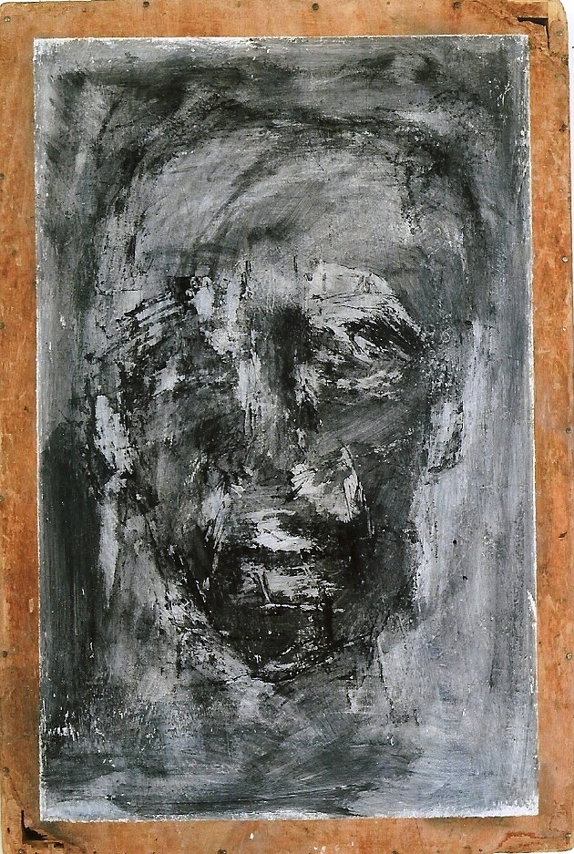 Artwork of Carmit Weizman